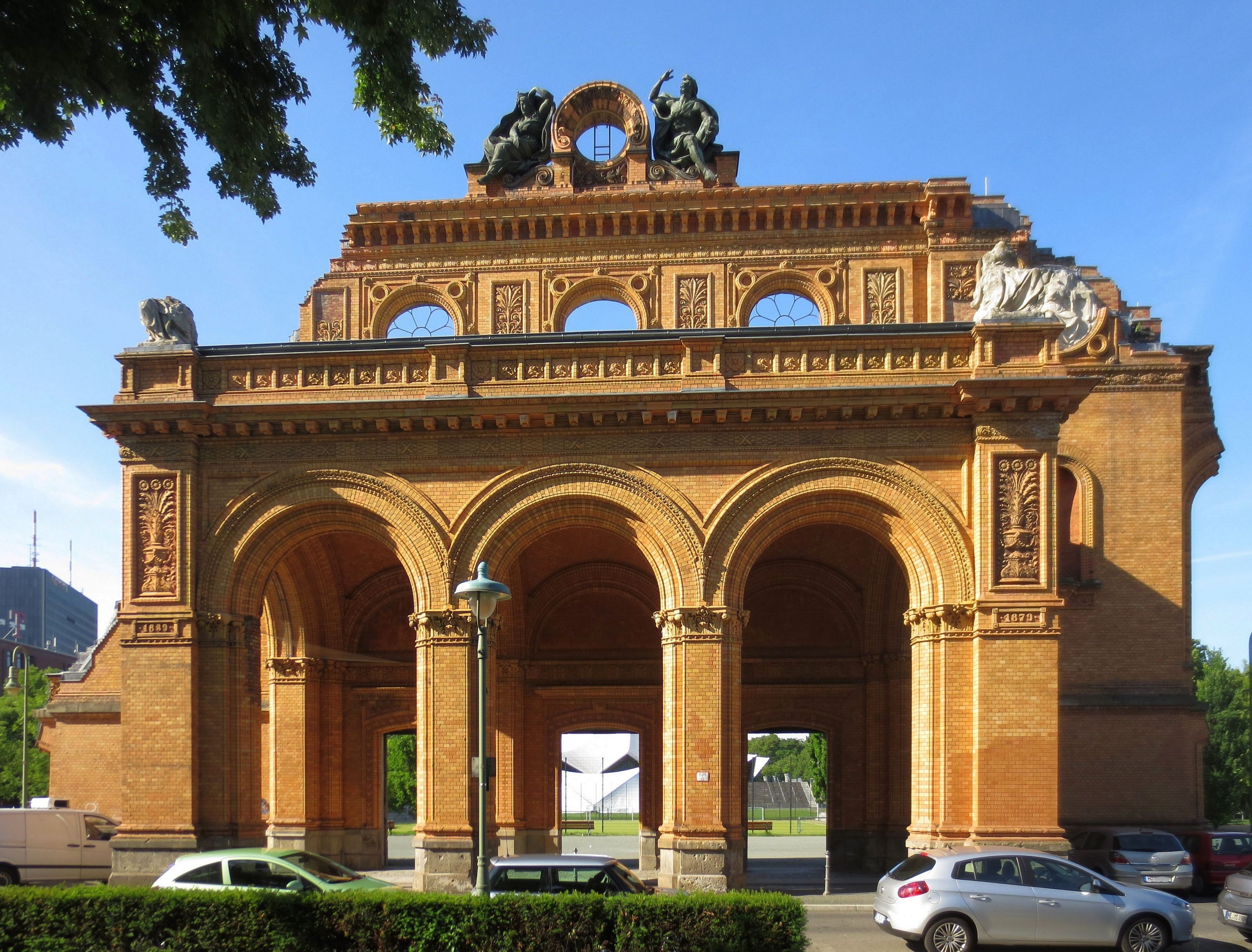 Ruins of the porticus of the former Anhalter Bahnhof railway station at Askanischer Platz 6-7 in Berlin-Kreuzberg. The station was built from 1876 zo 1880 to a design by Franz Schwechten and was, apart from the fragment in this picture, destroyed in WWII. The fragment has been designated as a cultural heritage monument.